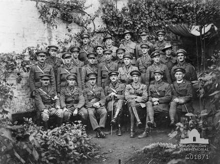 Officers from the 60th Battalion, Australian Imperial Force, c. 1917